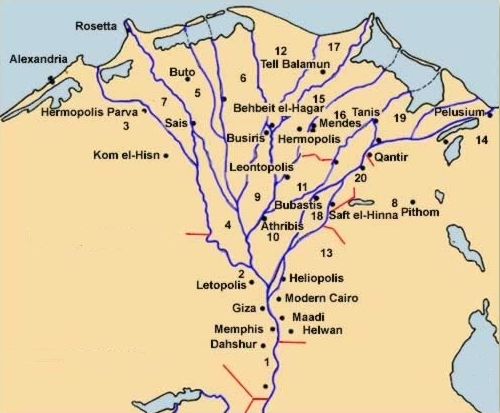 Map of the nomes of Ancient Lower Egypt.